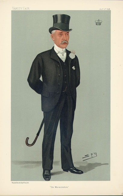 Statesmen No.681: Caricature of Lord Willoughby de Broke. Caption reads: "The Warwickshire"